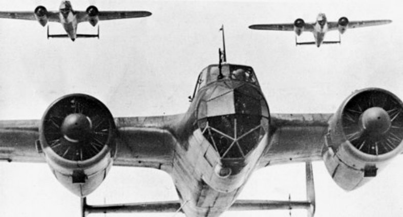 Front view of three German Do 17Z bombers in flight during the Battle of Britain.